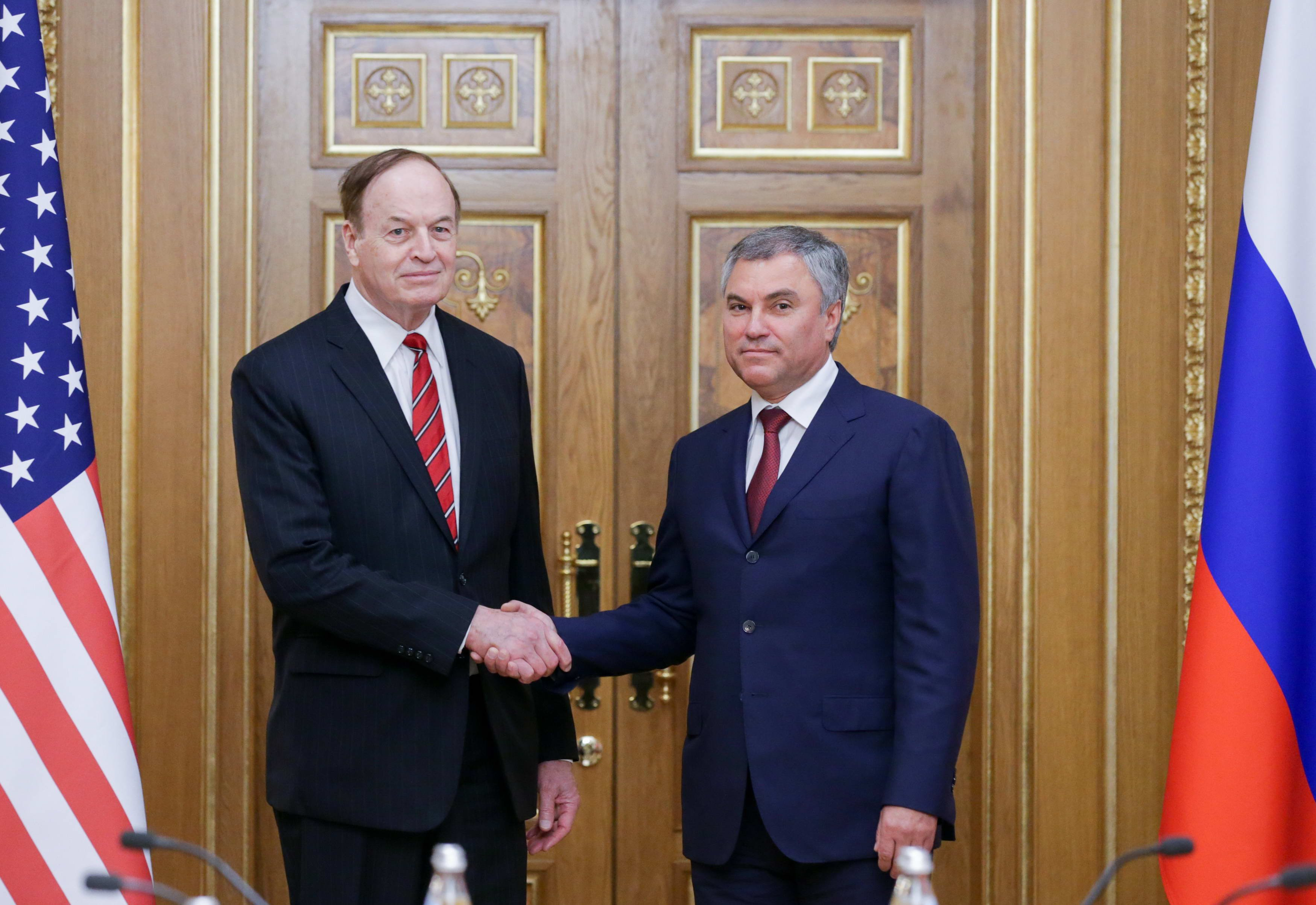 Meeting of the Chairman of the State Duma Vyacheslav Volodin with a delegation of the US Congress